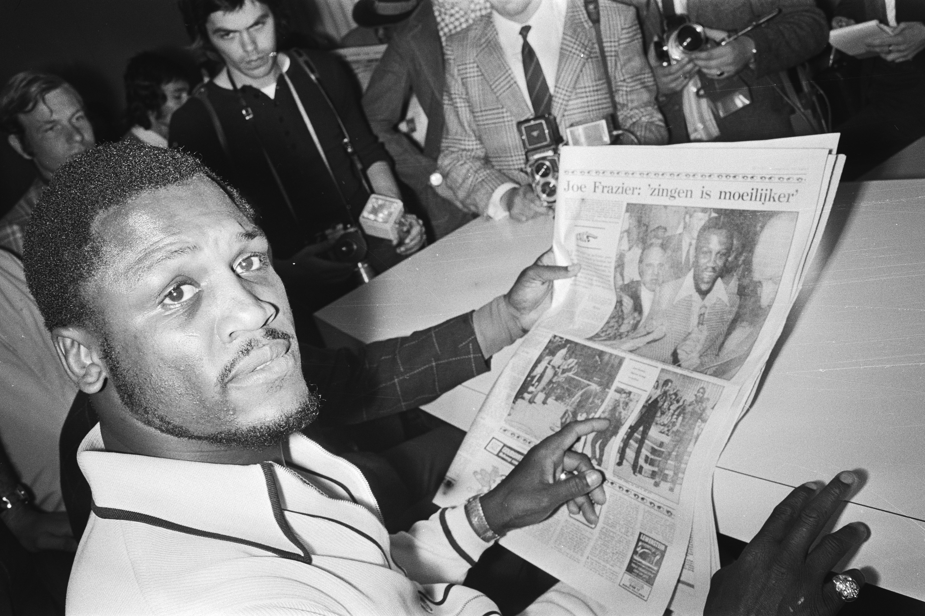 Joe Frazier reading Dutch newspaper about his singing career at Amsterdam Airport Schiphol